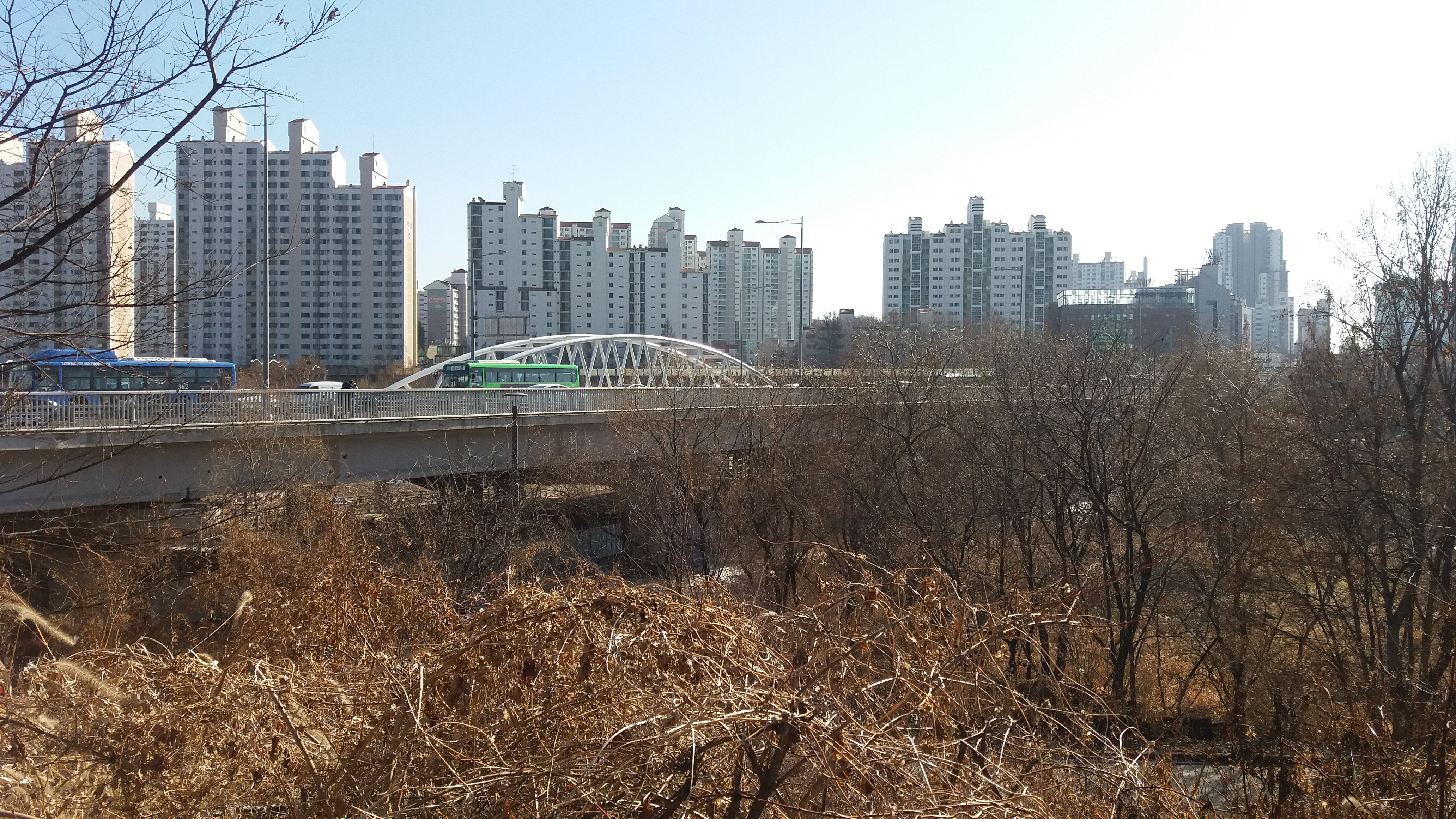 View of Seoul Yeouigyo.